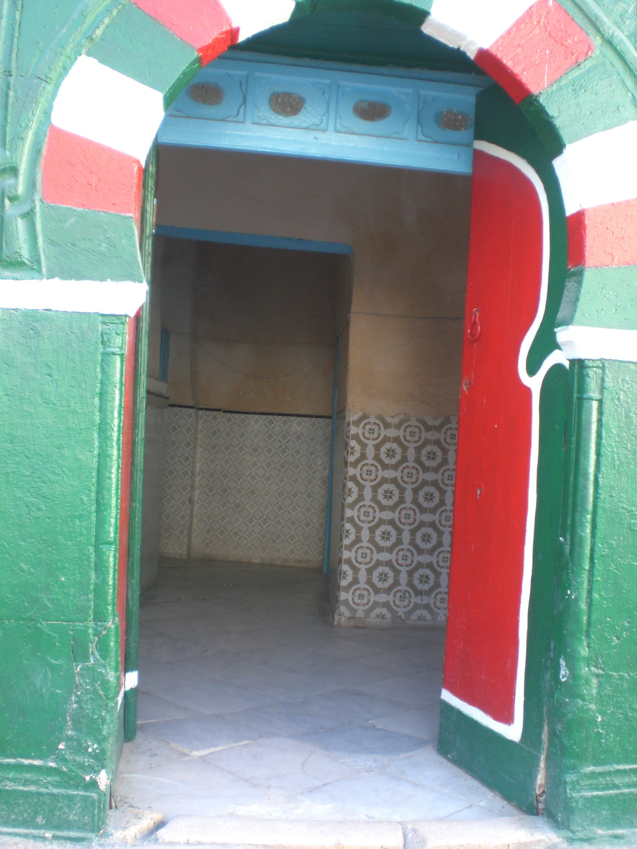 A hammam in Tunis